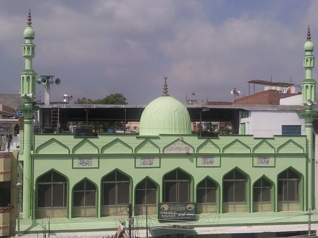 Jamia Masjid Al-Kauser is very old and famous Masjid in this area. Under its organizing committee a Madarsa was established, a few blocks away.